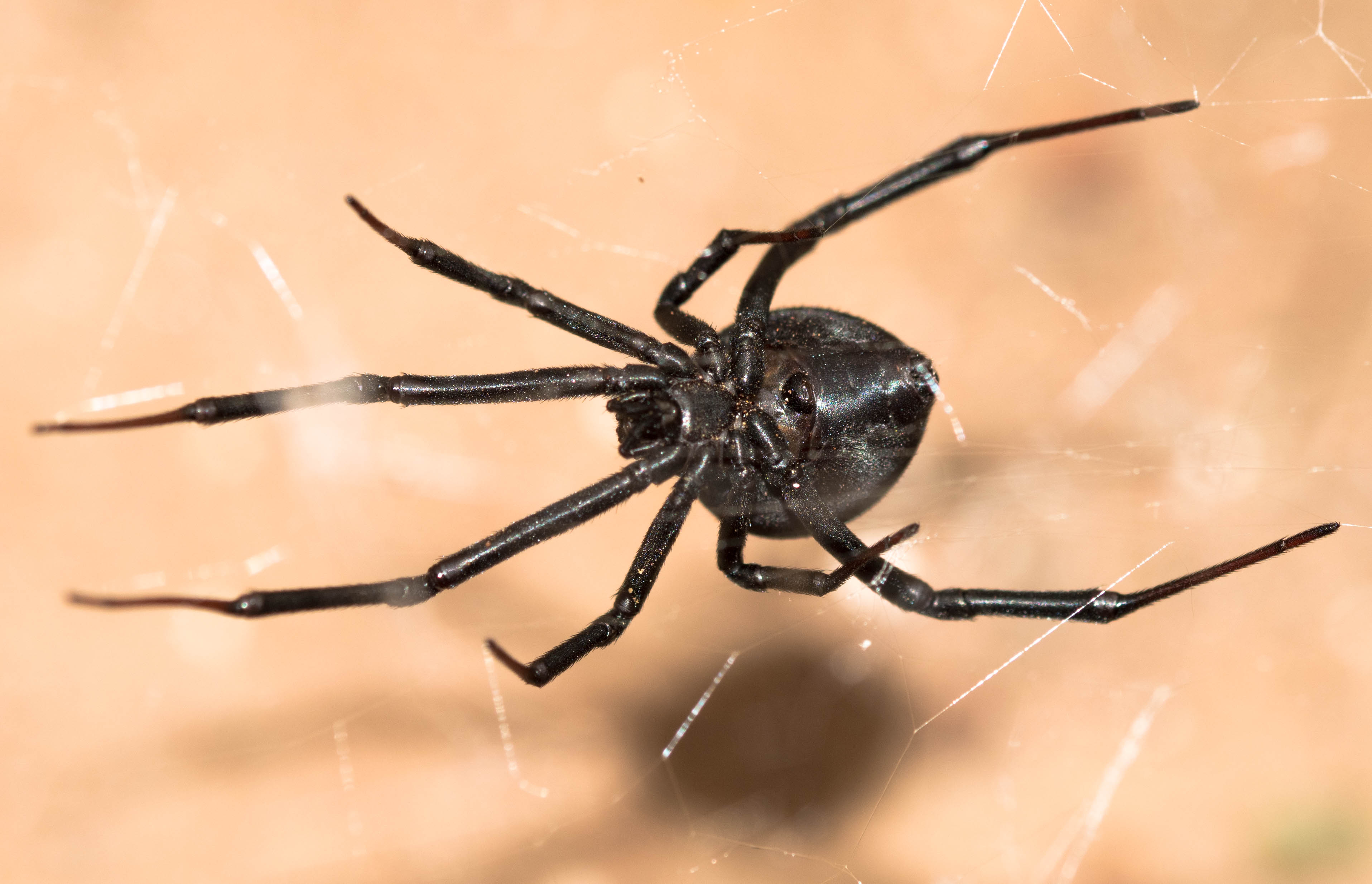 A female inland button spider (Latrodectus renivulvatus), showing the lack of ventral markings, unlike many other Latrodectus species in other countries, such as the black widows and the redback spider.